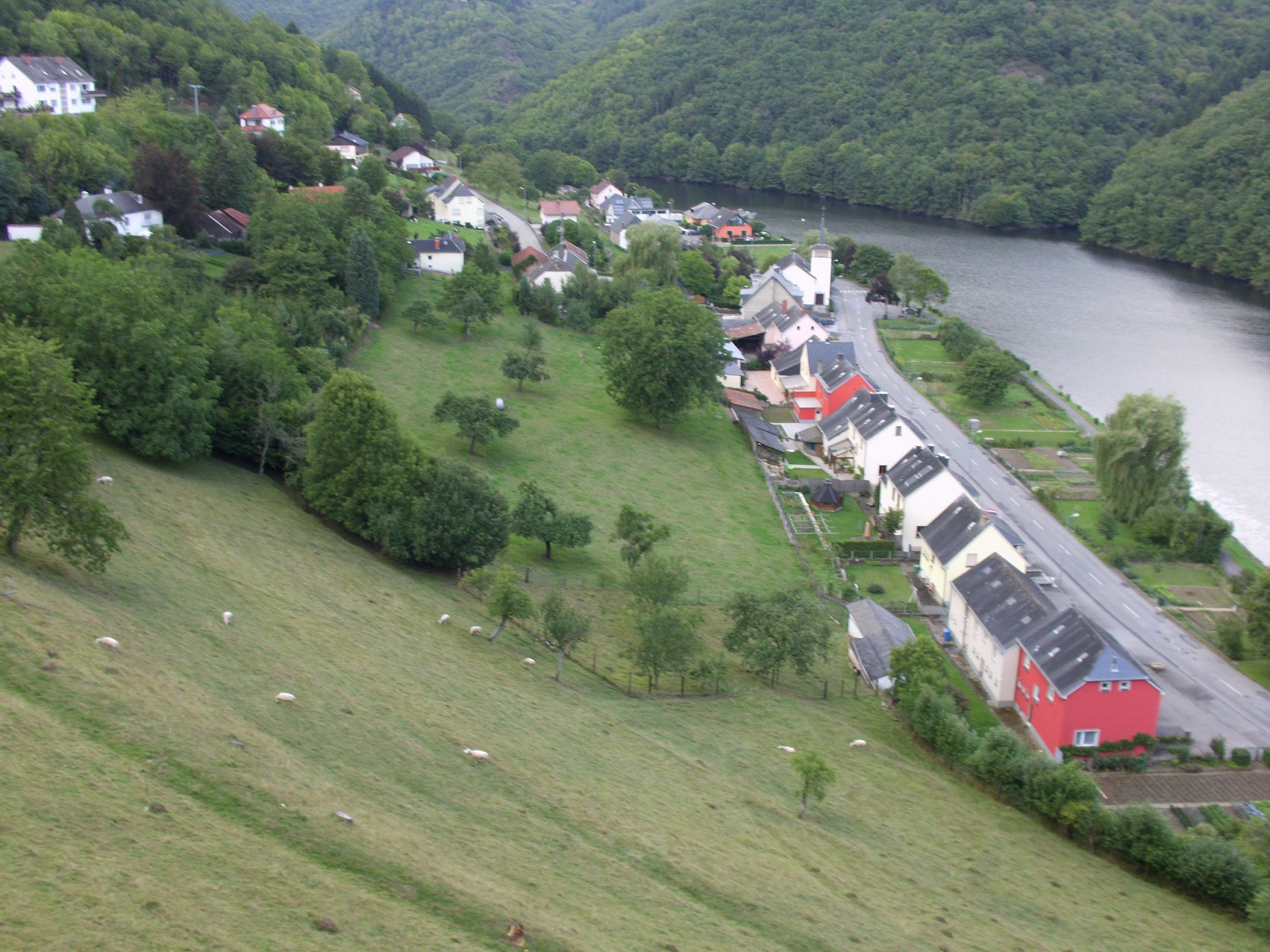 the village of Bivels, Luxembourg